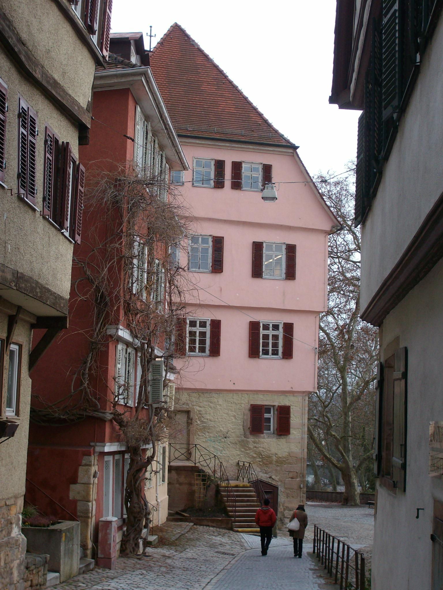 Burse, seen from the west (Bursagasse)